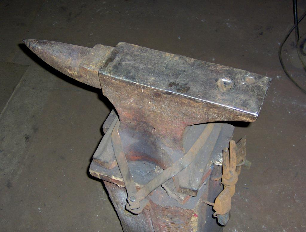 Well used London pattern anvil. This view gives a clear view of the horn, waist, and feet as well as the top of the anvil.